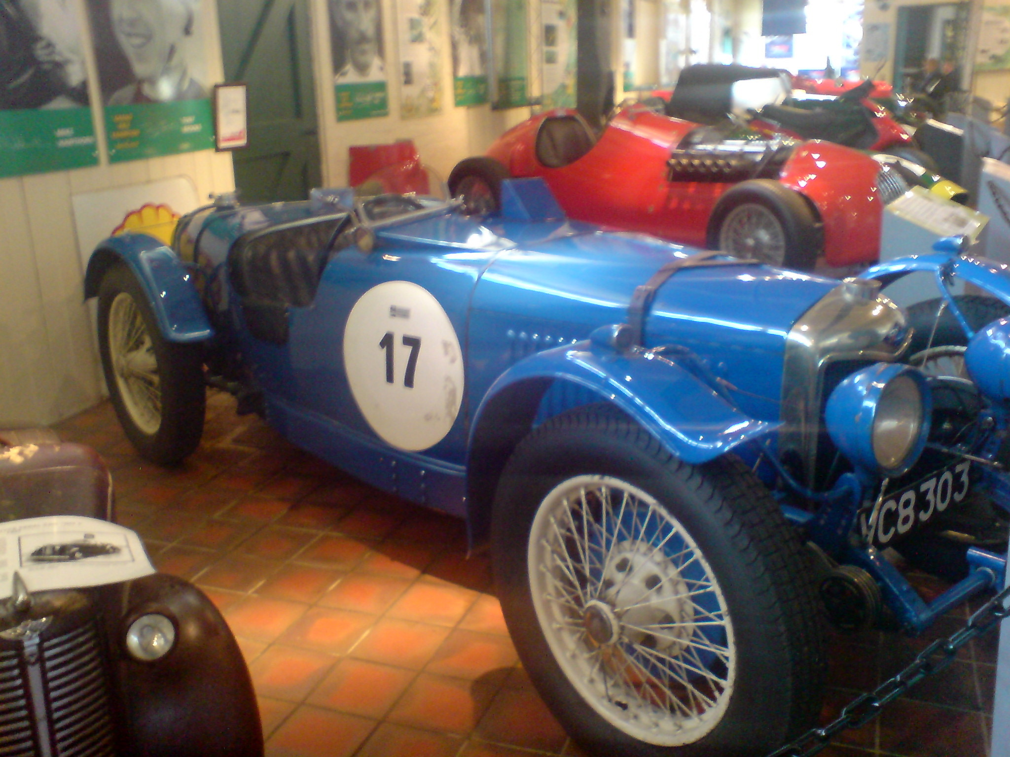 A Riley 1 1/2 Lynx Car at Brooklands Museum